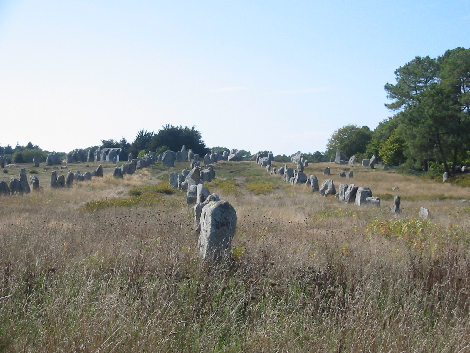 Image taken by me on 2005/10/9 in the Kermario site, near Carnac, France.